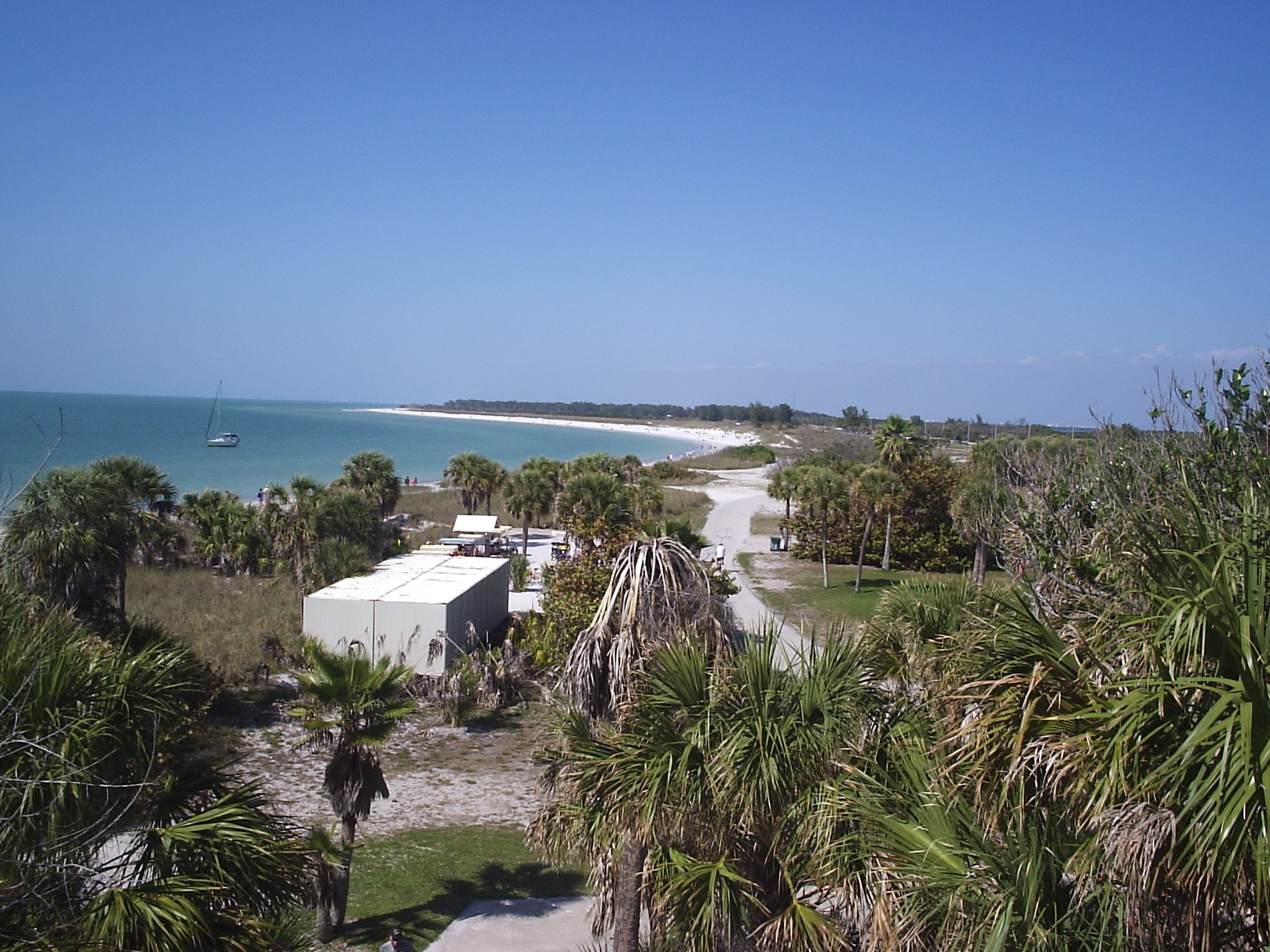 Taken by me at Fort Desoto Park, Pinellas County, Florida. Olympus Camedia D-395 digital camera. CC-BY-SA-2.5 Mikereichold 00:39, 17 March 2006 (UTC)